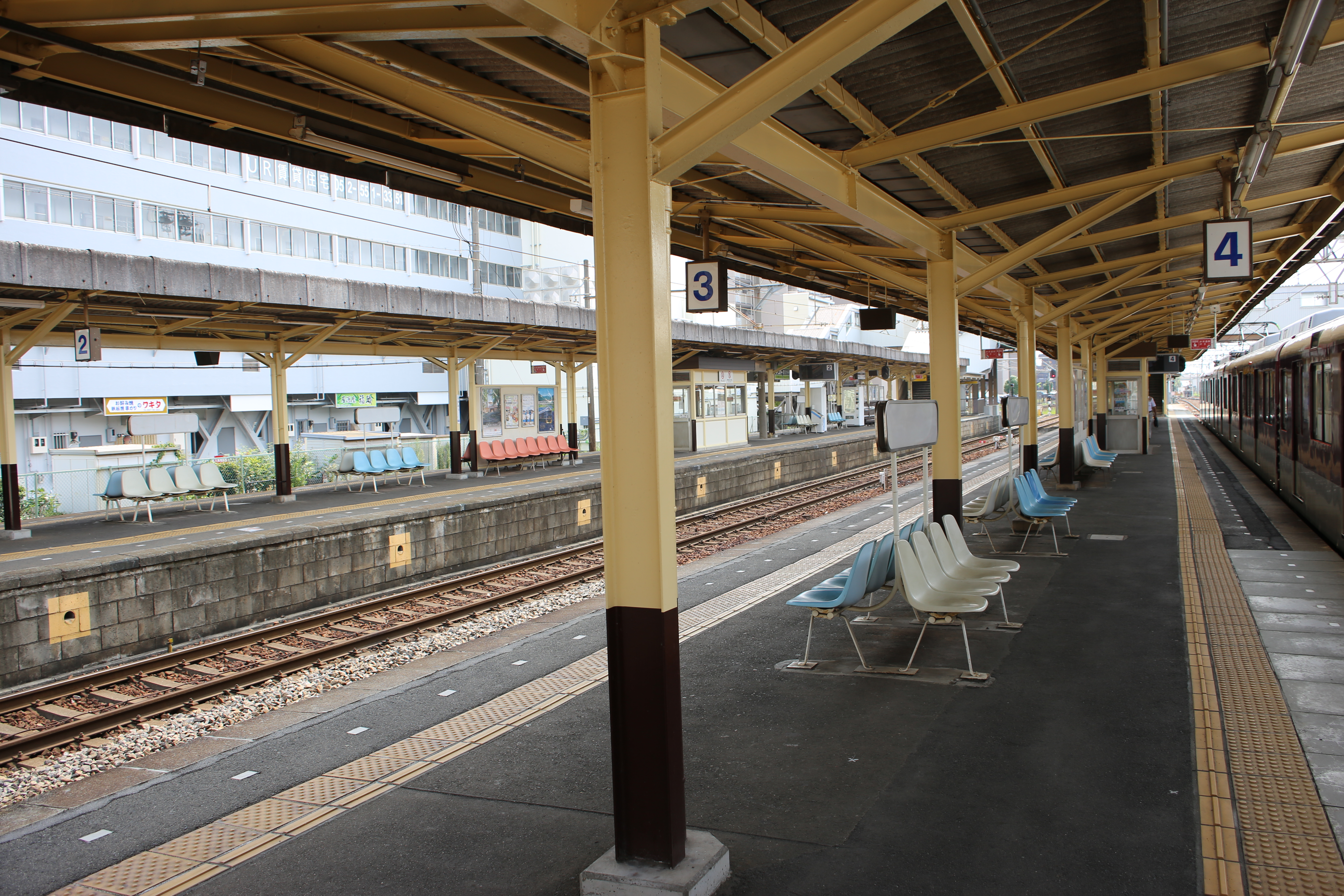 The platforms at Tomiyoshi Station in Aichi Prefecture, Japan